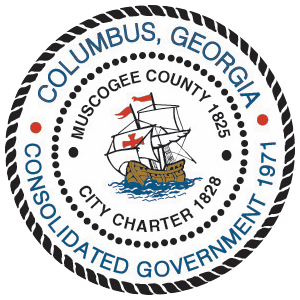 Original seal of Columbus, Georgia, United States.